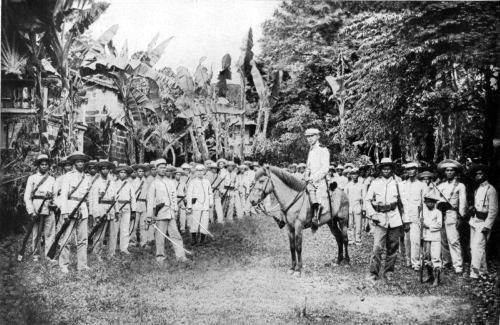 General Gregorio del Pilar and his troops in Pampanga, around 1898 (Philippine-American War).